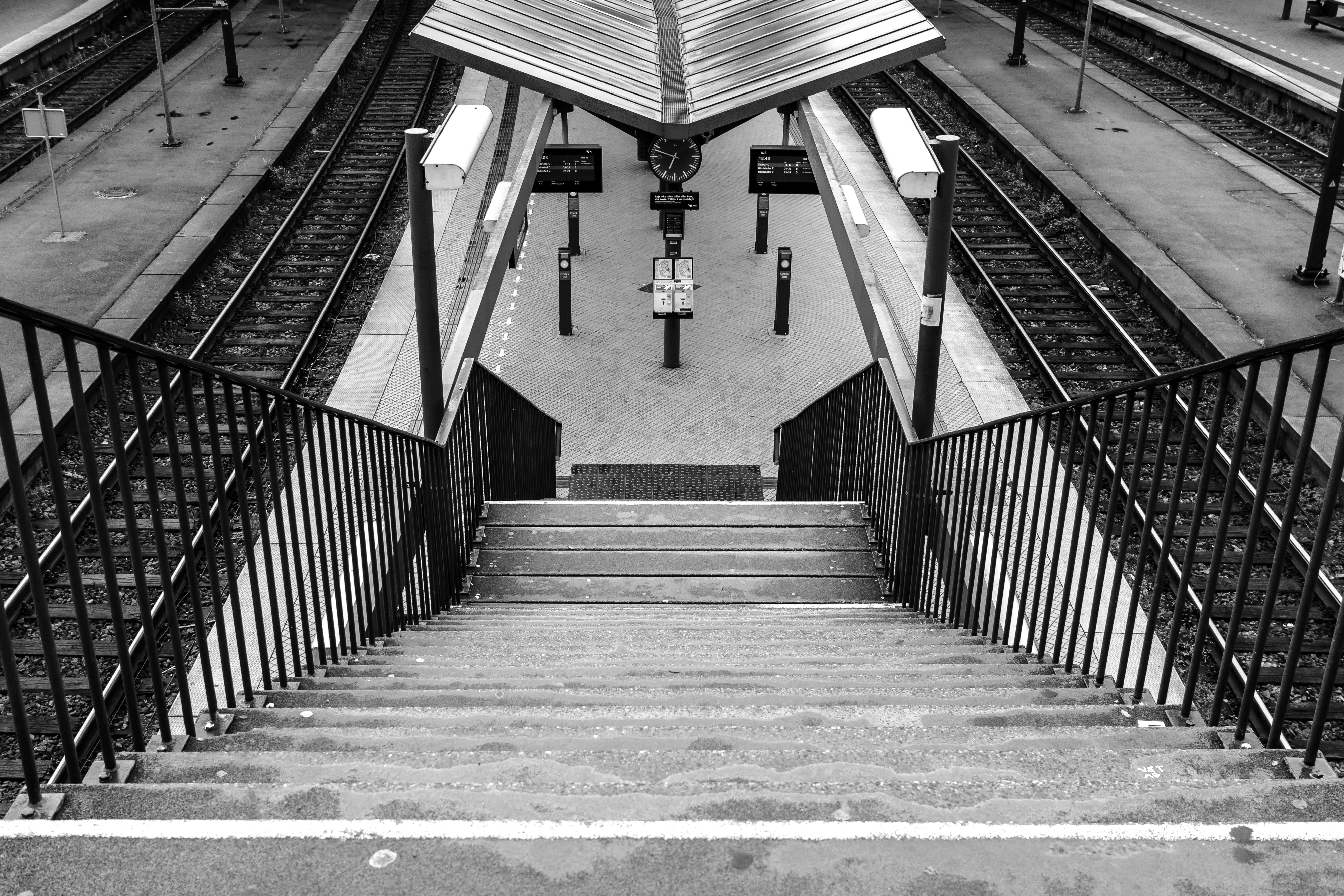 Central station, Copenhagen, Denmark